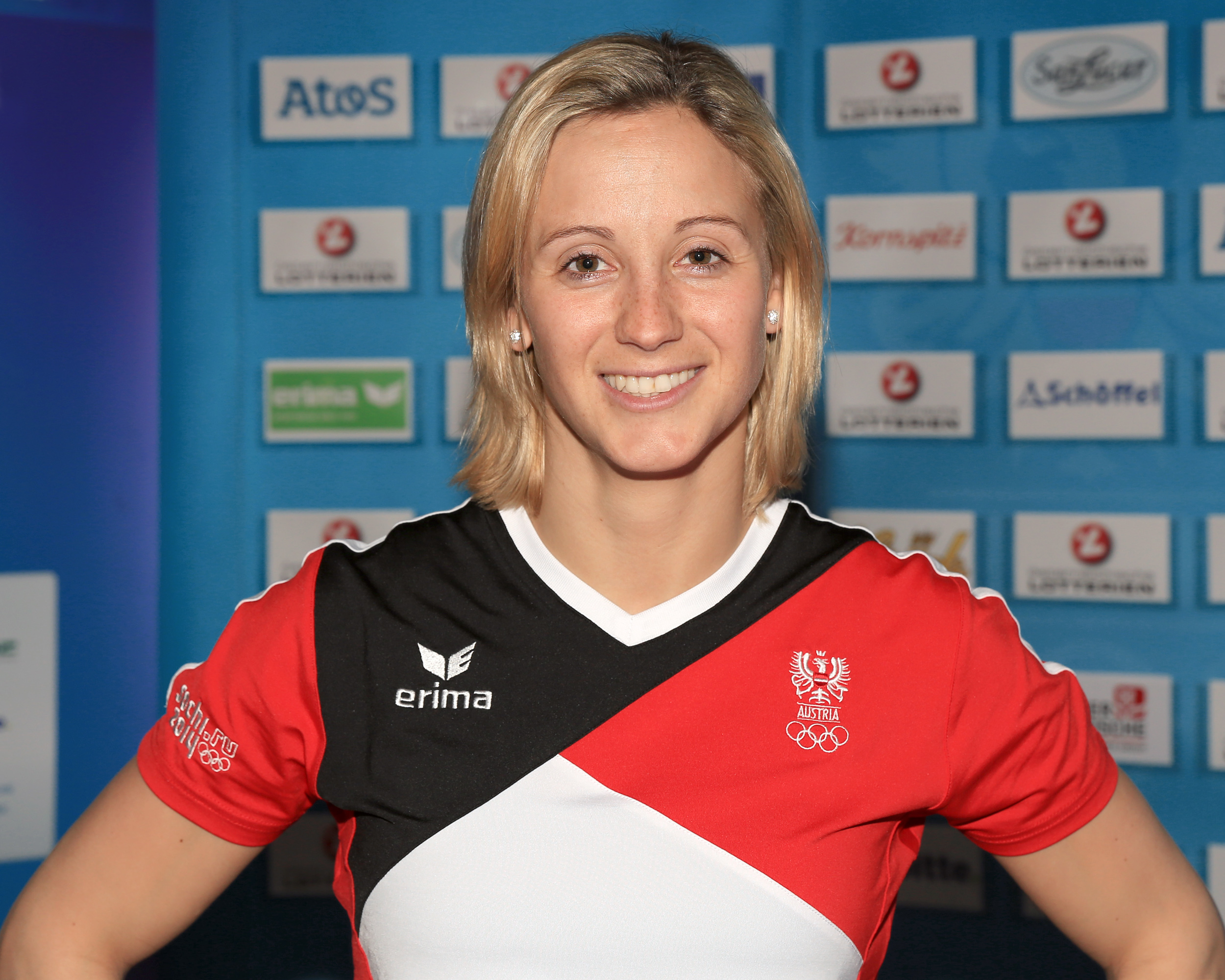 Michaela Kirchgasser at the outfitting of the Austrian team for the 2014 Winter Olympics (Hotel Marriott in Vienna, Austria.